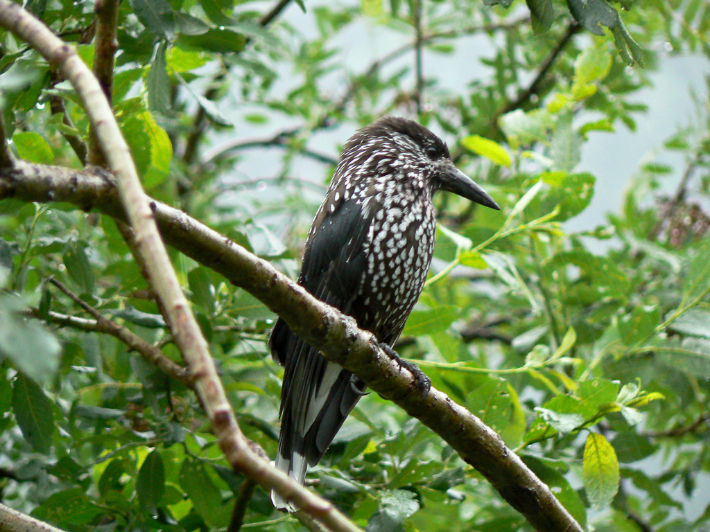 Spotted Nutcracker (Nucifraga caryocatactes) in Kunice, Poland